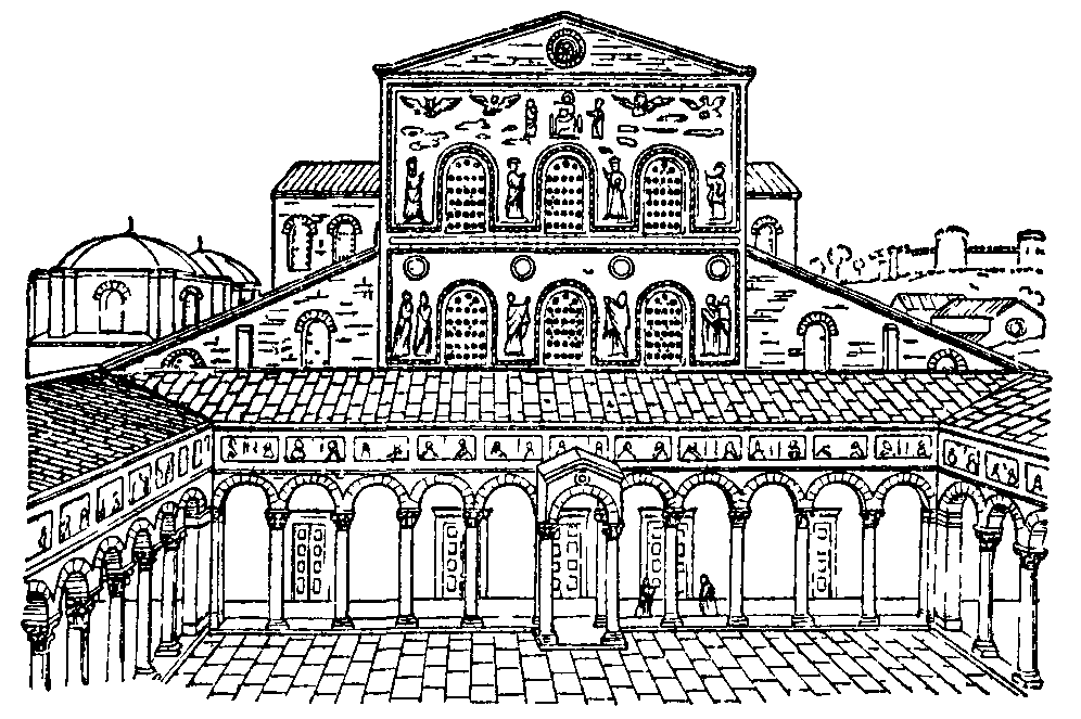 Illustration from 1911 Encyclopædia Britannica, article BASILICA. Fig. 9.—Façade of old St Peter's, Rome.